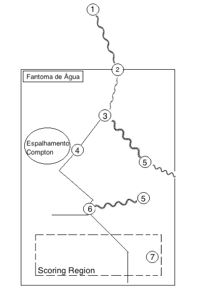 Monte Carlo photon transfer scheme